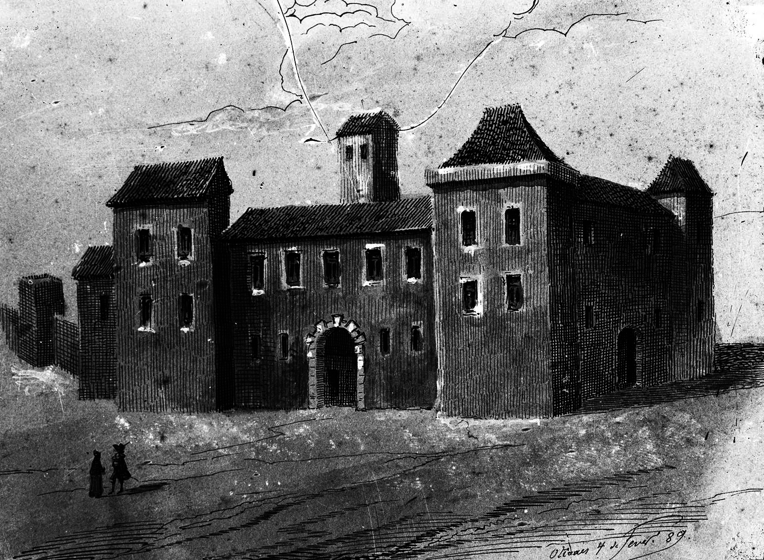 Estaus Palace in the Rossio, in Lisbon, Portugal, as it appeared before its 18th-century reconstruction.